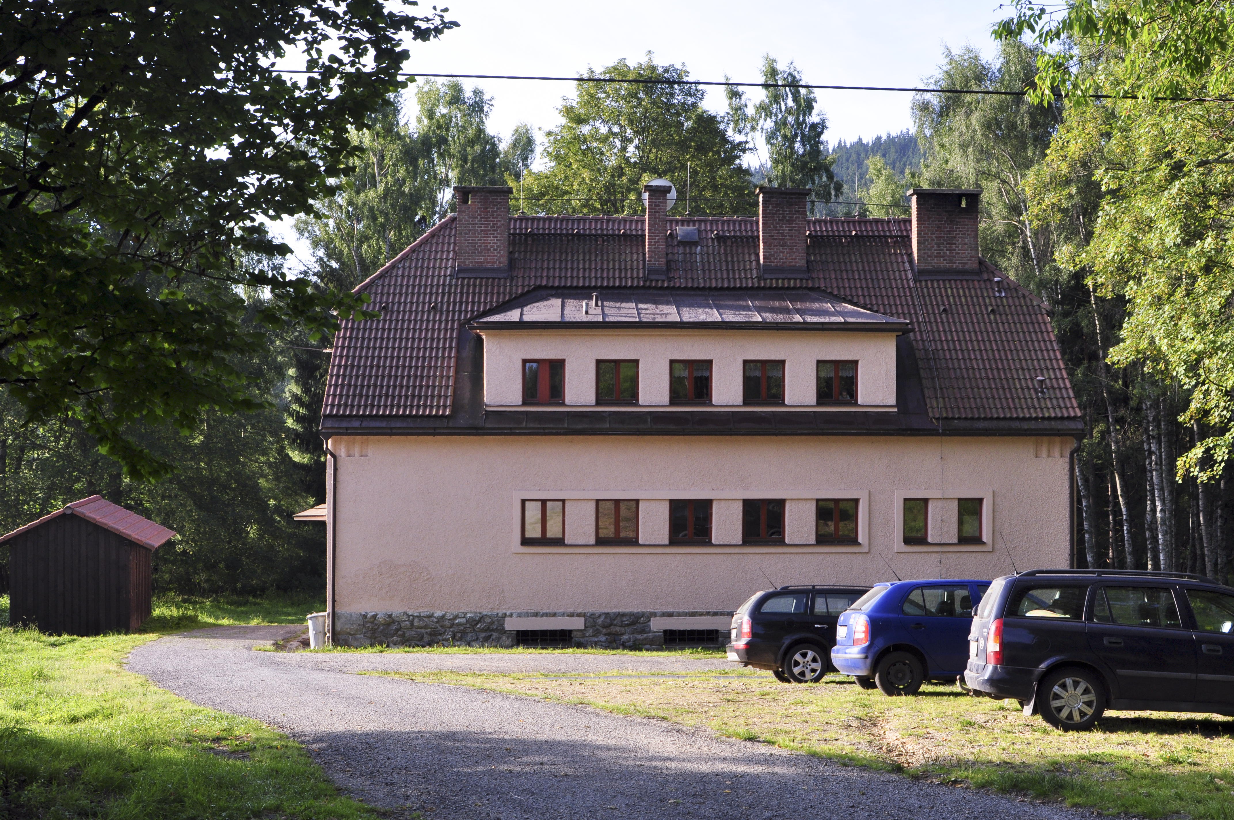 Milešce - former school - No. 80